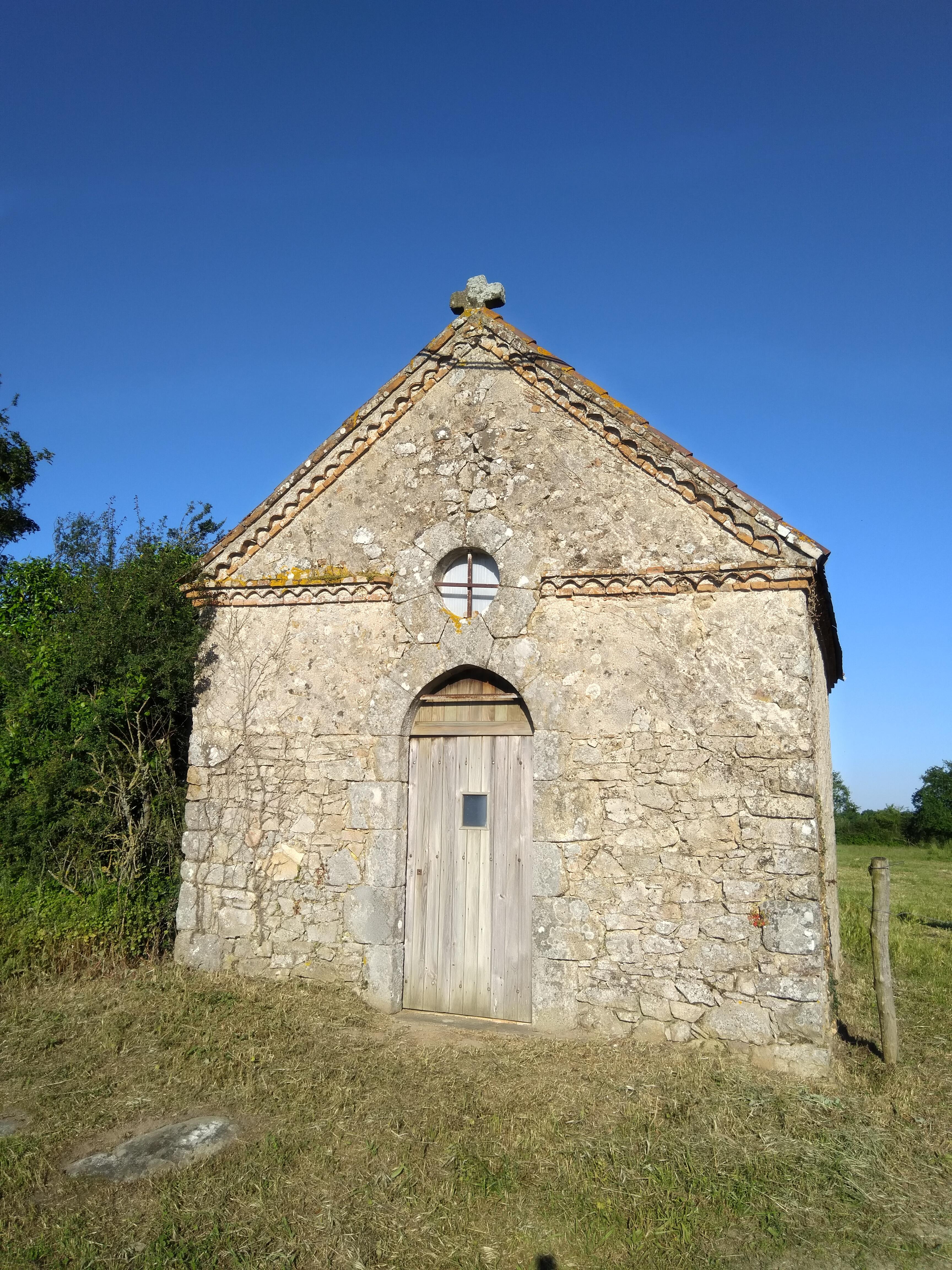 Outside of the Chapelle à Pierrot in Nueil-les-Aubiers in France